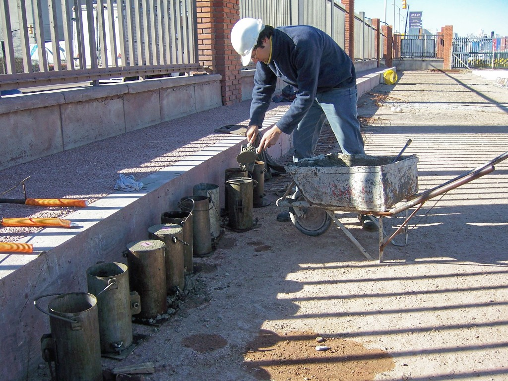 A series of fresh concrete test cylinders in reusable molds.